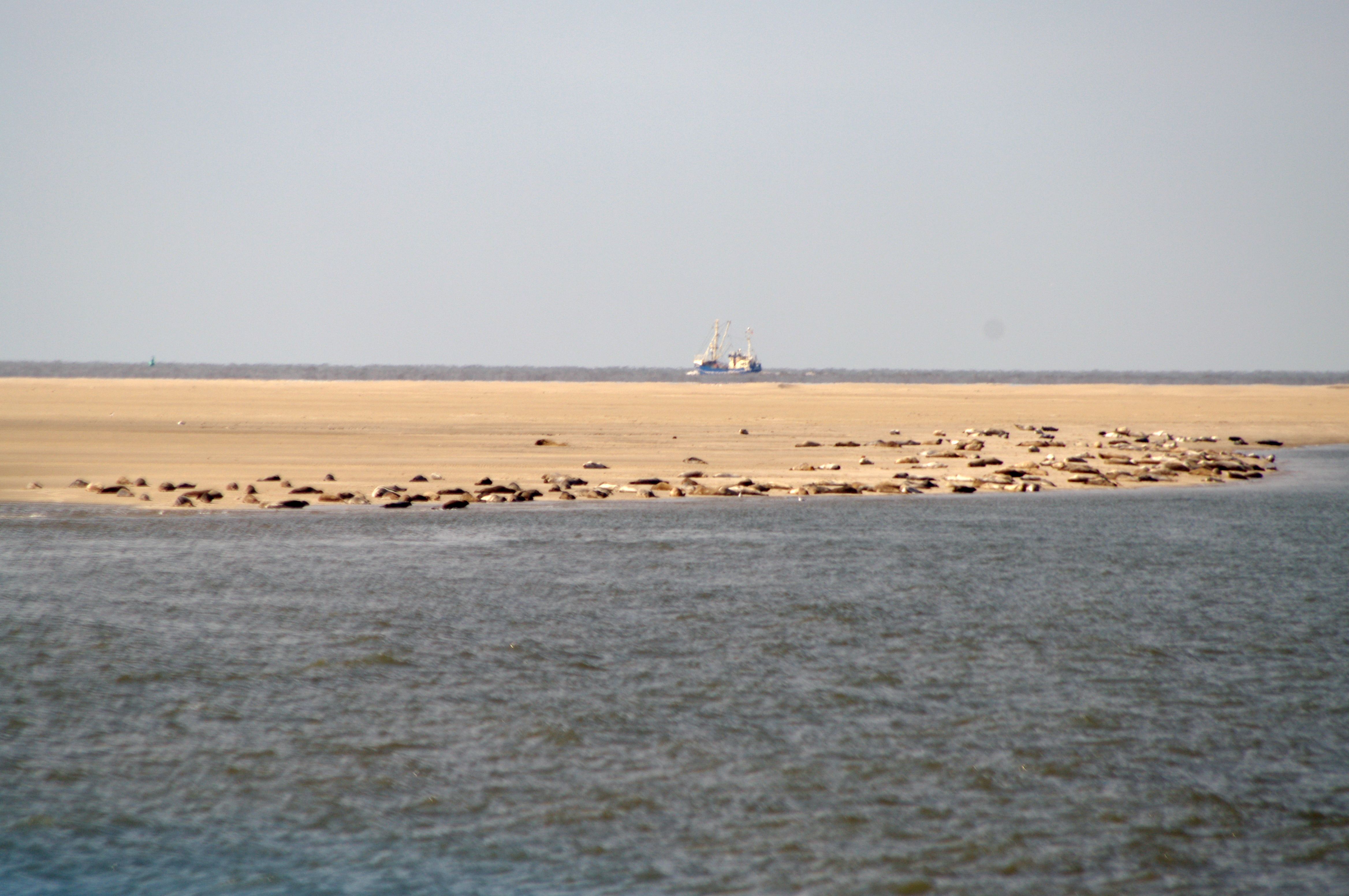 Sandbank Tertius with harbour seals.In the background a fishing boat.